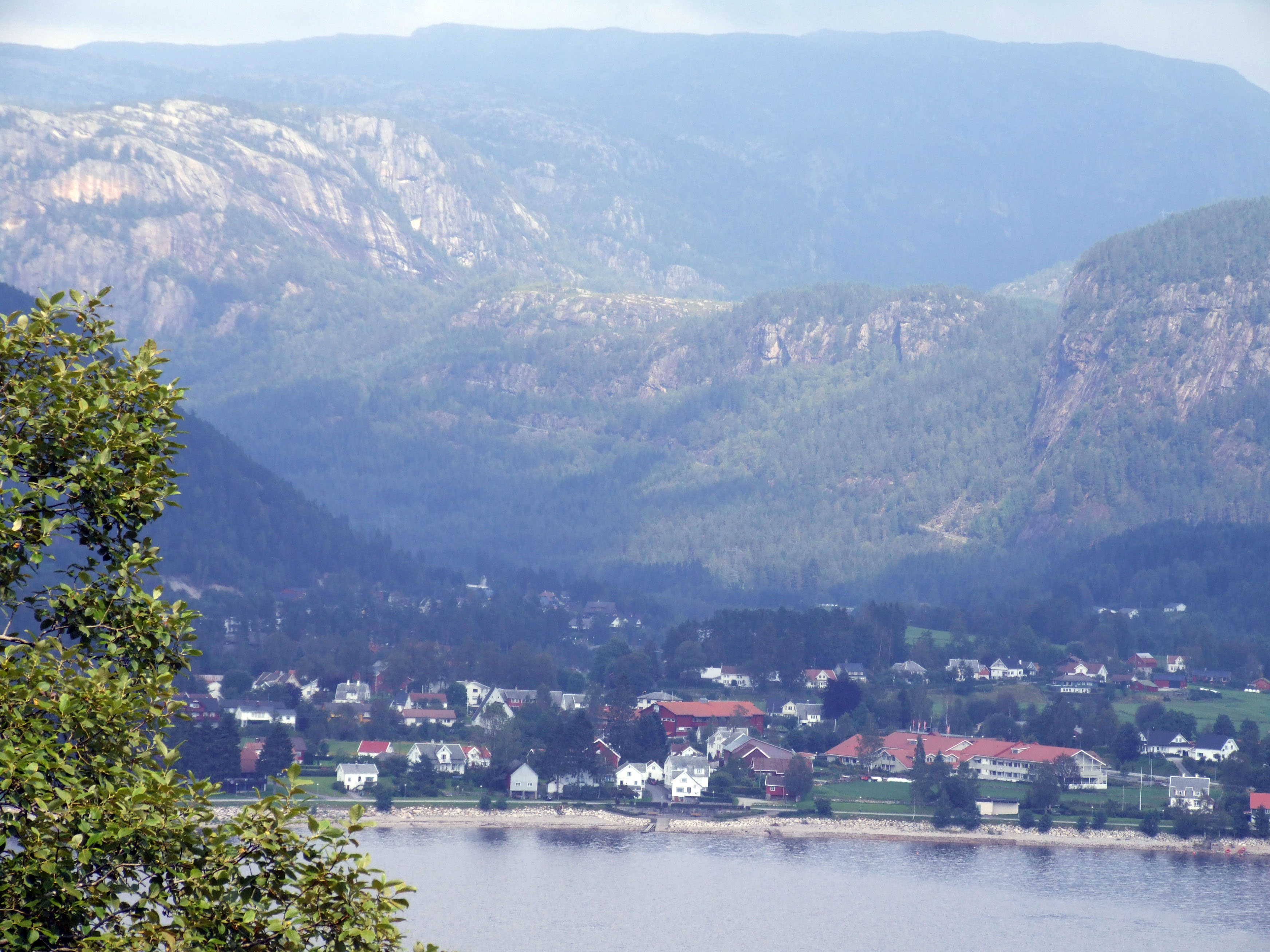 Not Sira close to Flekkefjord in Vest-Agder, Norway, but rather Tonstad